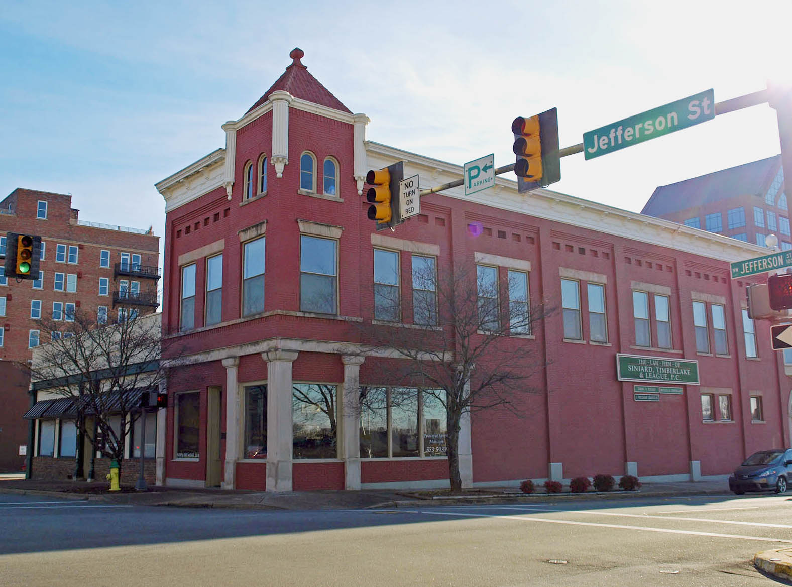 The Struve-Hay Building in Huntsville, Alabama, listed on the National Register of Historic Places.